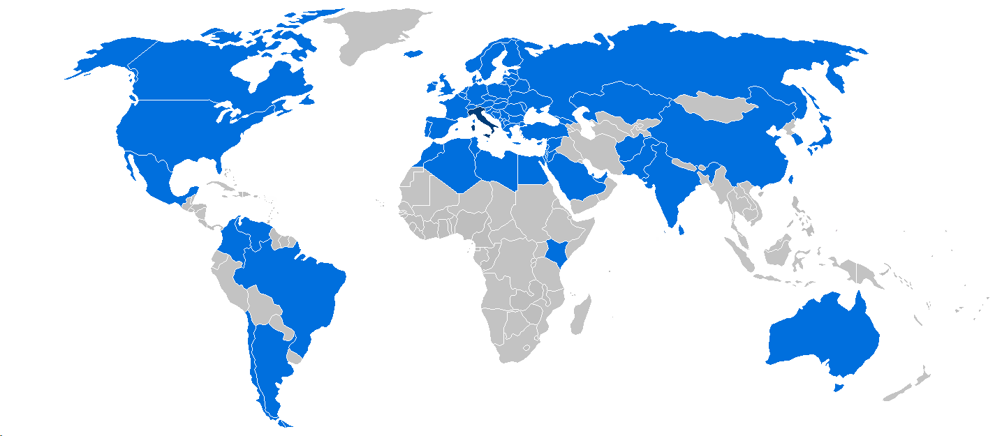 Map of international trips made by Silvio Berlusconi as Prime Minister of Italy.